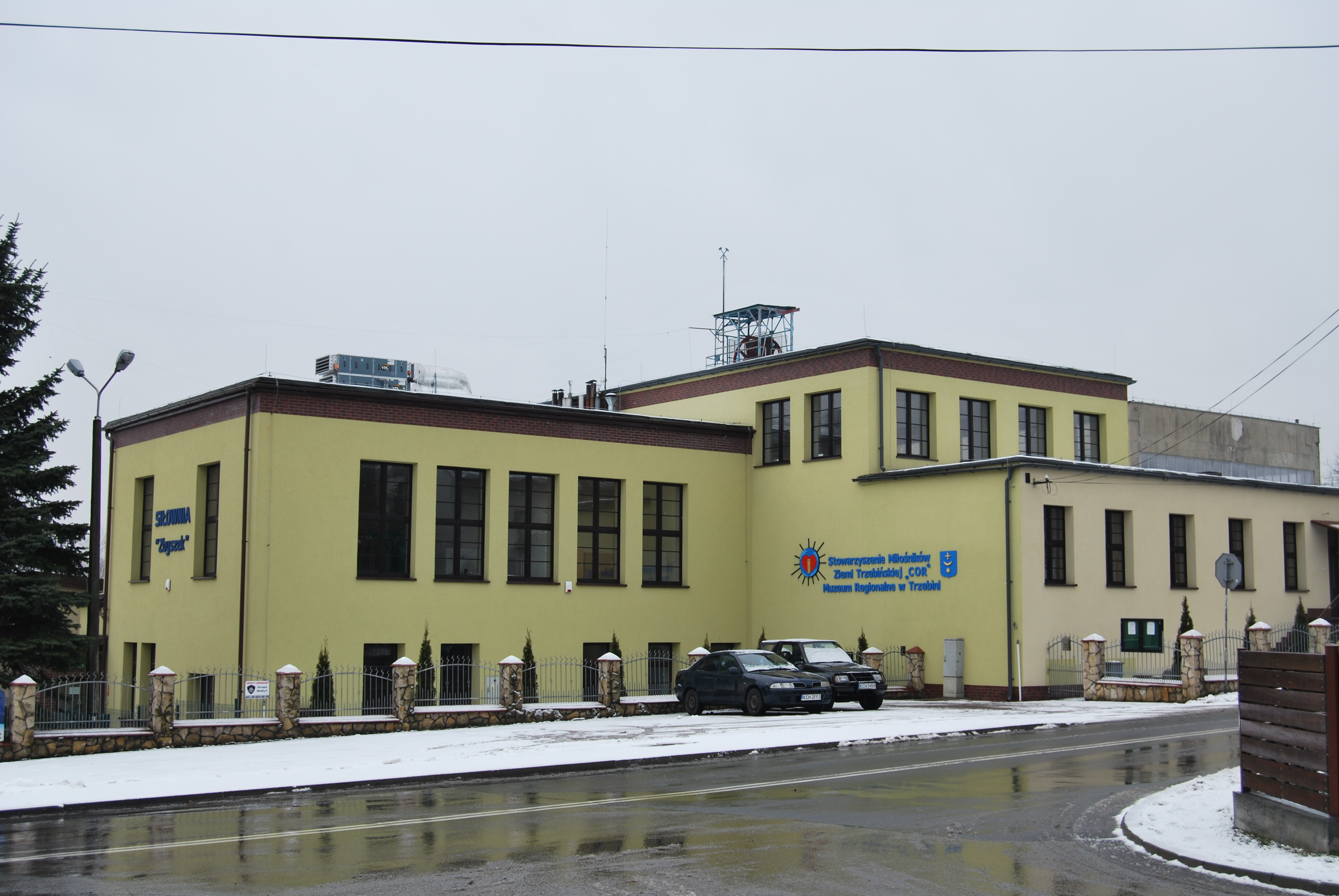 Regional museum in Trzebinia (2015).